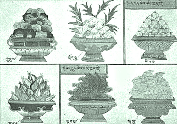 Six common medicinal herbs in Tibet according to the Blue Beryl Treatise by Sangye Gyamtso (1653-1705).